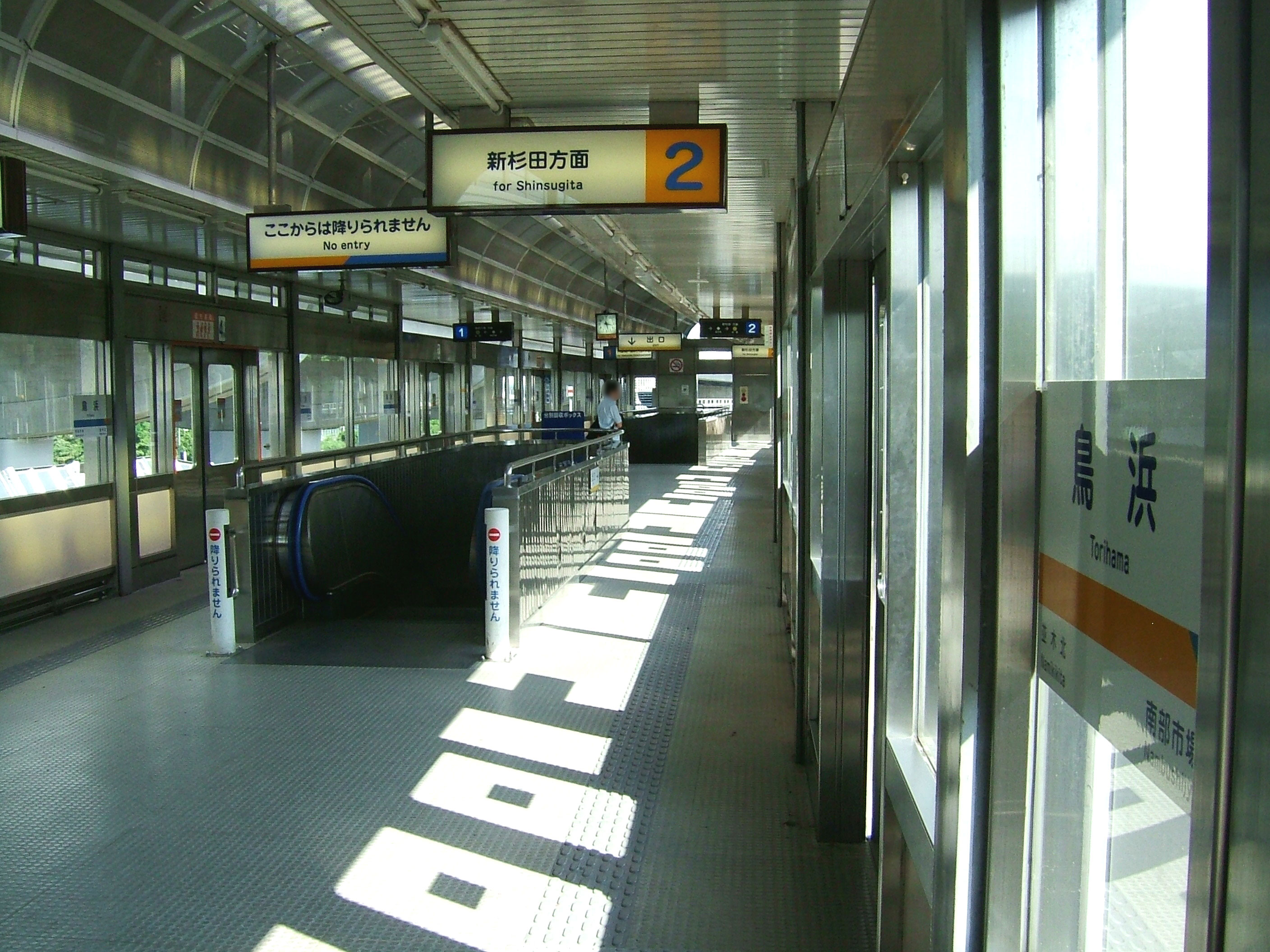 Torihama Station platform (Kanazawa Seaside Line)